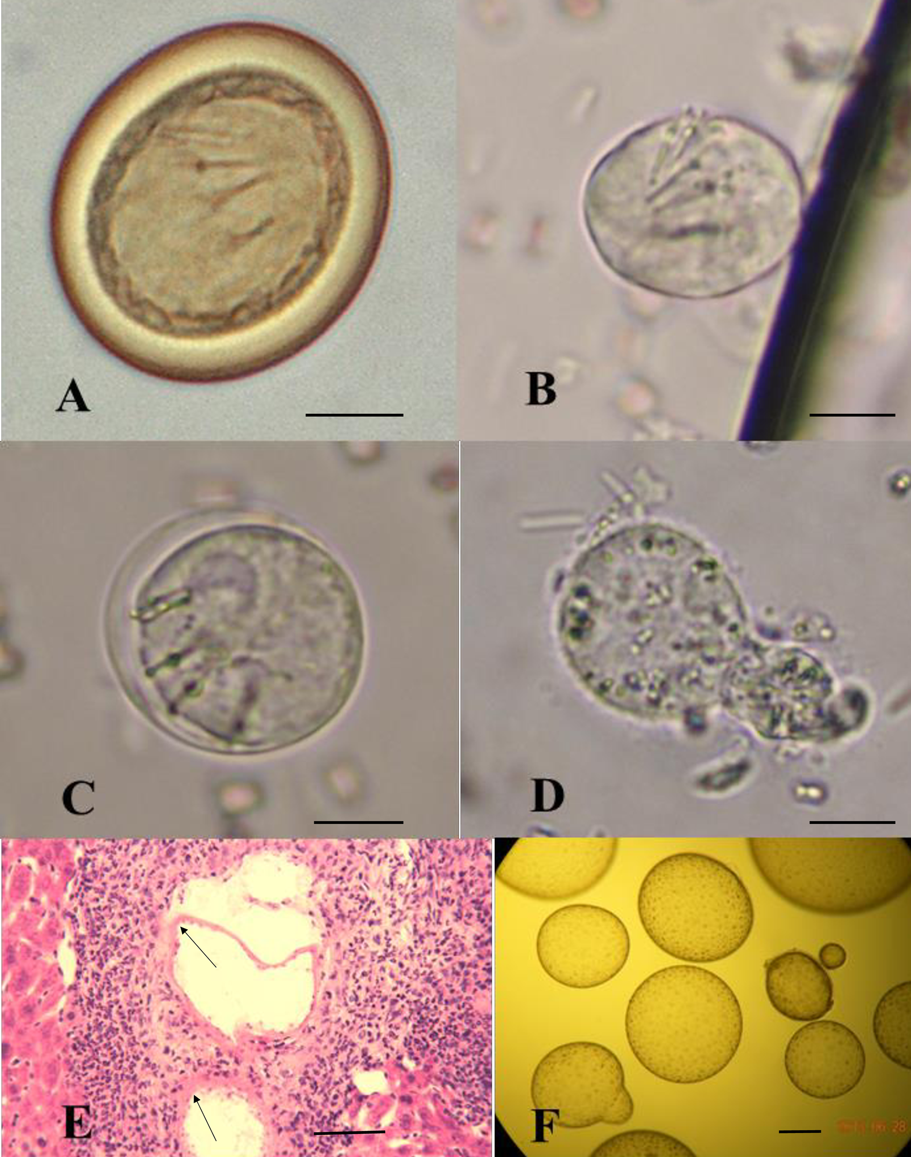 Morphology of different life cycle stages of E. multilocularis. A: Egg; B: Oncospheres (non-activated); C: Oncospheres (activating) with the hooks dispersive and body swelling; D: Oncospheres (activated) with the hooks aggregation in the smaller lobe after 24 hours activation; E: 4-week metacestodes miniature vesicles; F: Metacestodes small vesicles cultivated in vitro; Bar: 10μm (A-E), 1mm (F); Arrowhead: Miniature vesicles.